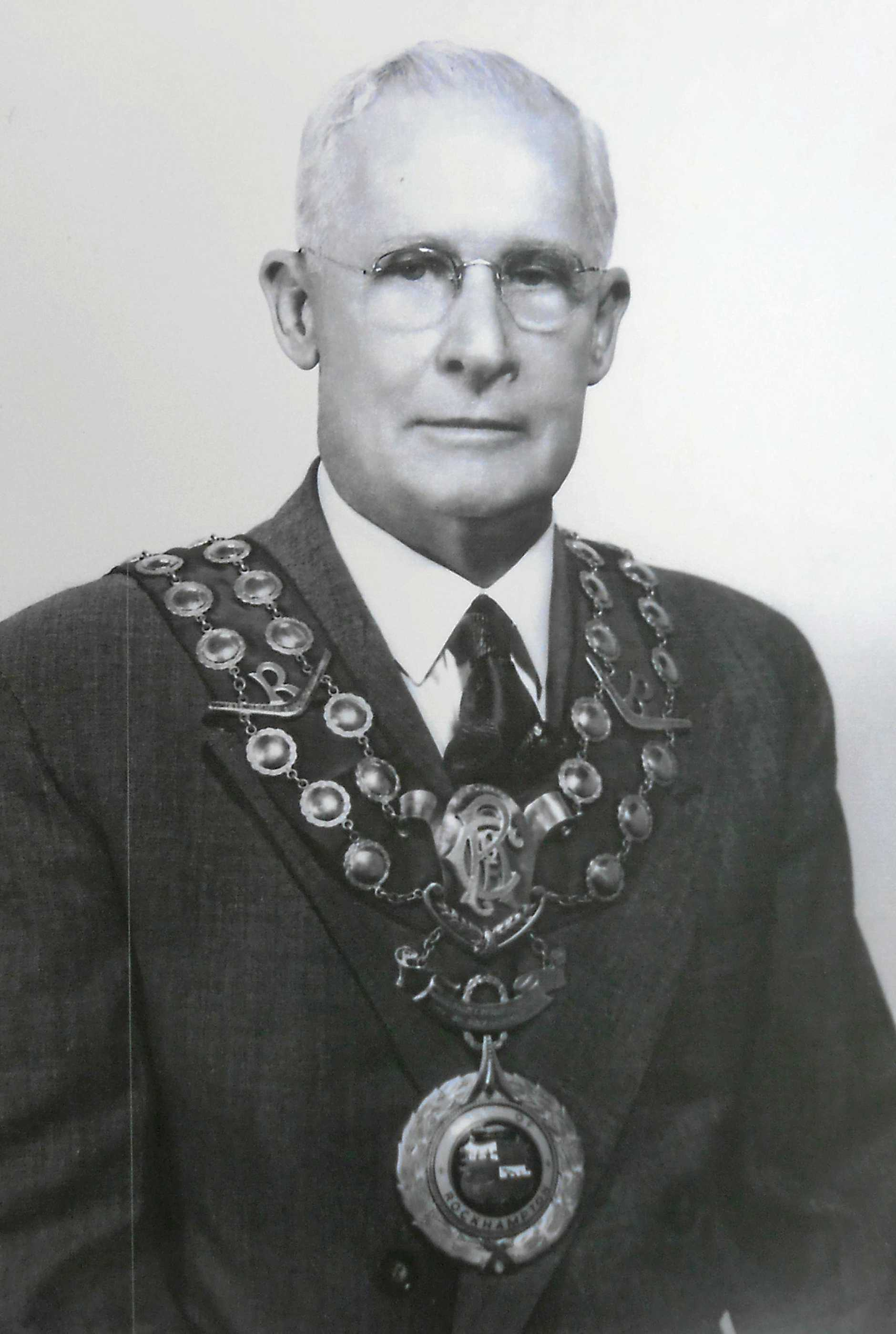 The mayor of Rockhampton from 1943 until 1952, Henry Jeffries, pictured in mayoral chains while in office.